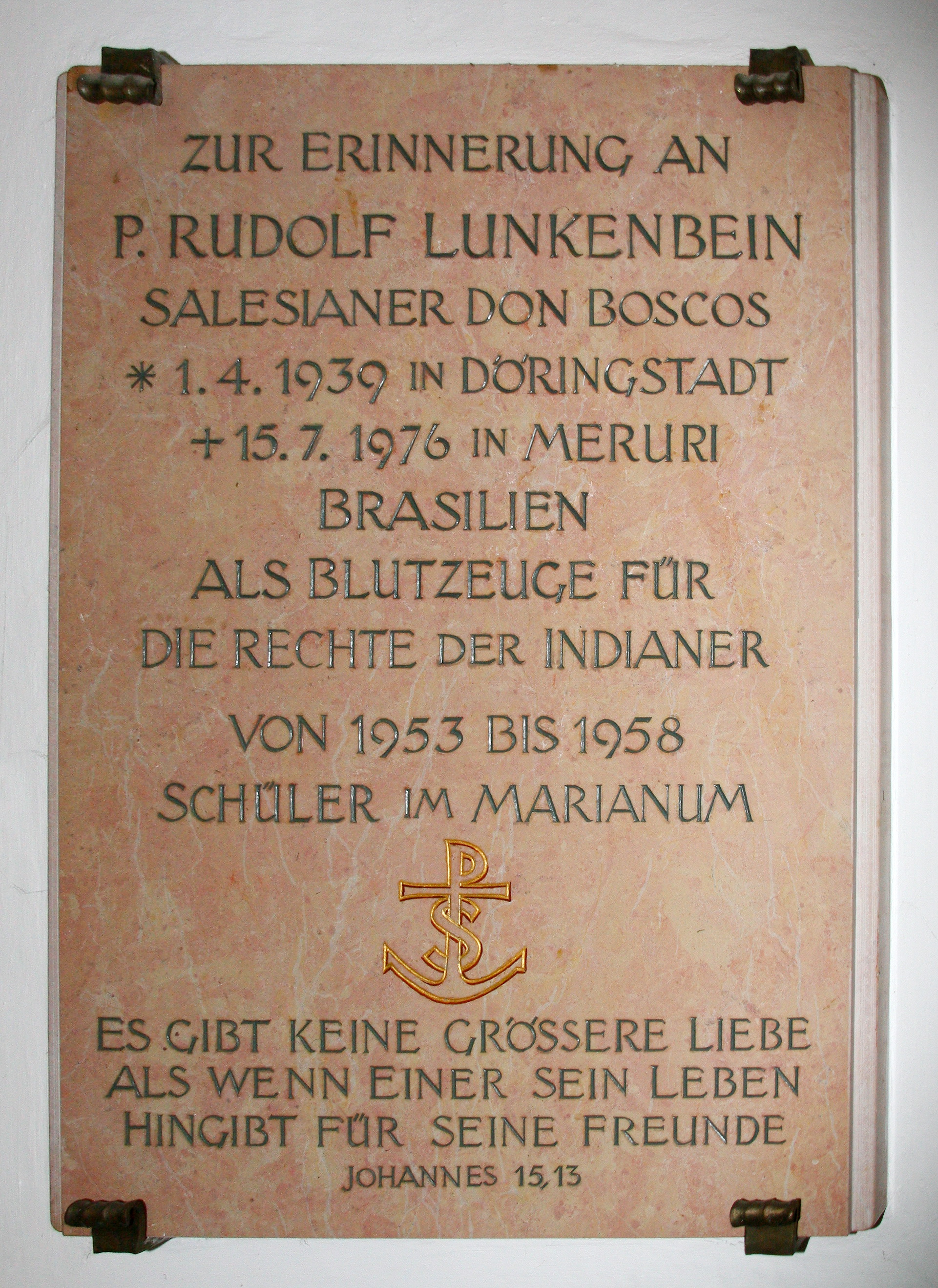 Memorial tablet dedicated to P. Rudolf Lunkenbein